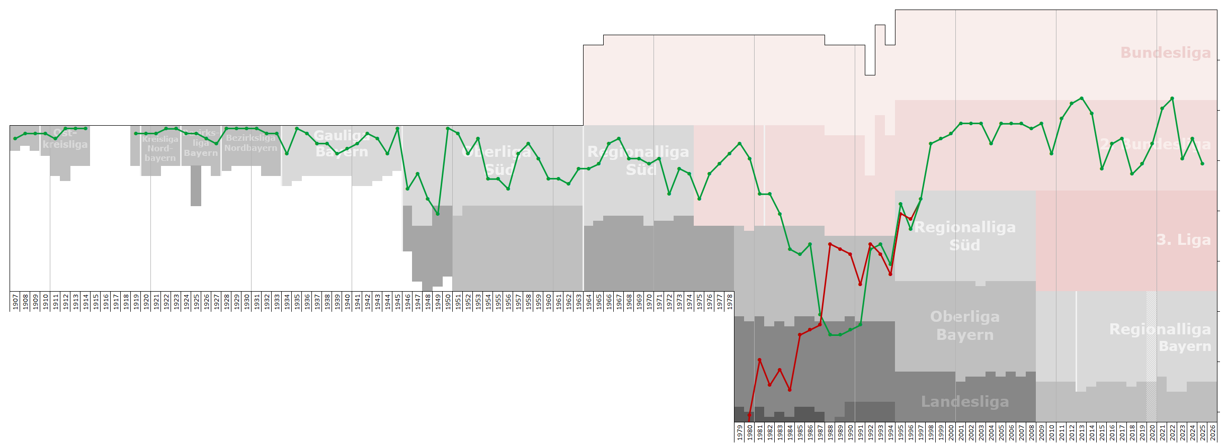 Chart of end-season table positions of Greuther Fürth in the football league system of Germany. Data source: RSSSF, wikipedia, f-archiv.de, fussball.de